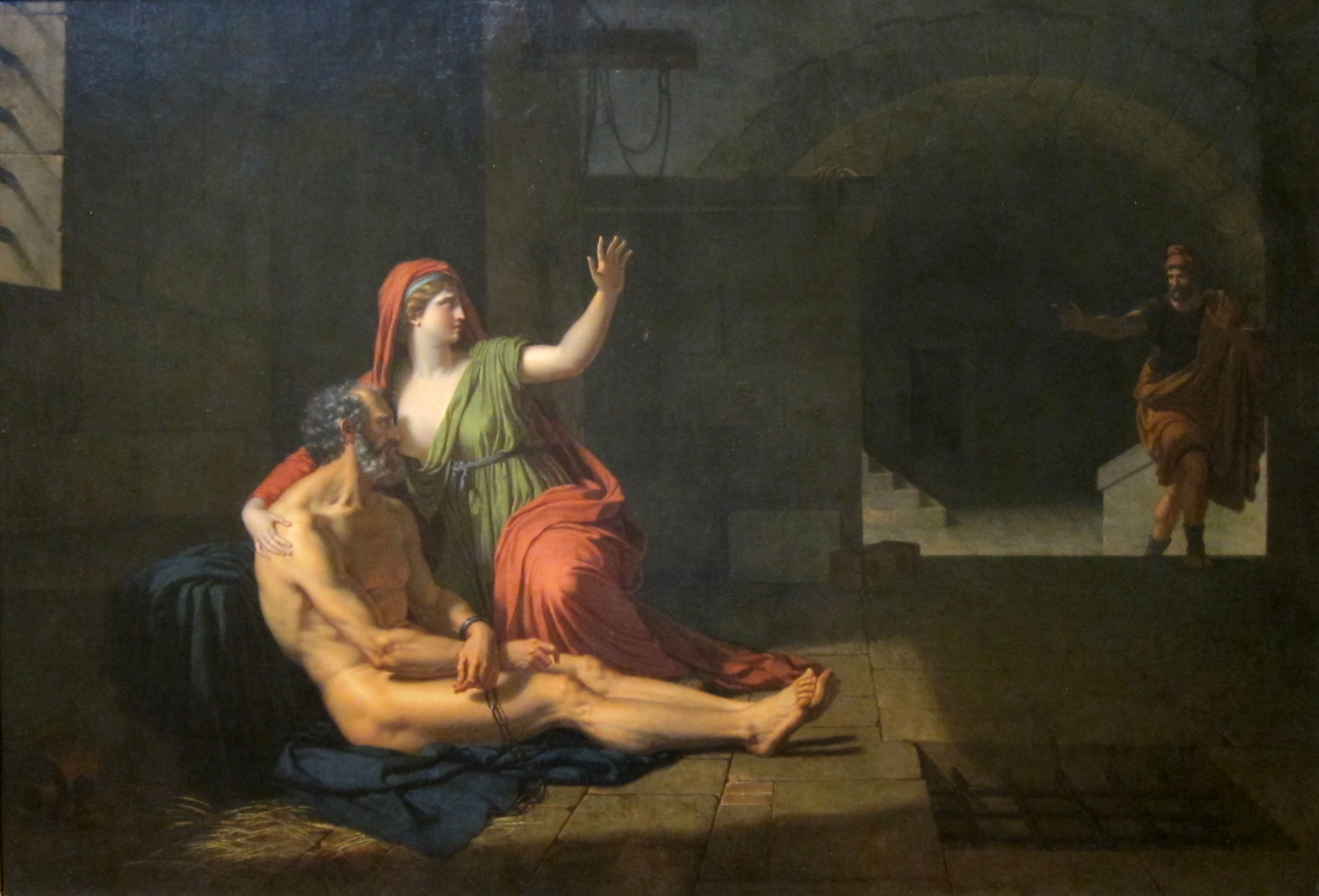 Roman Charity (Cimon and Pero)